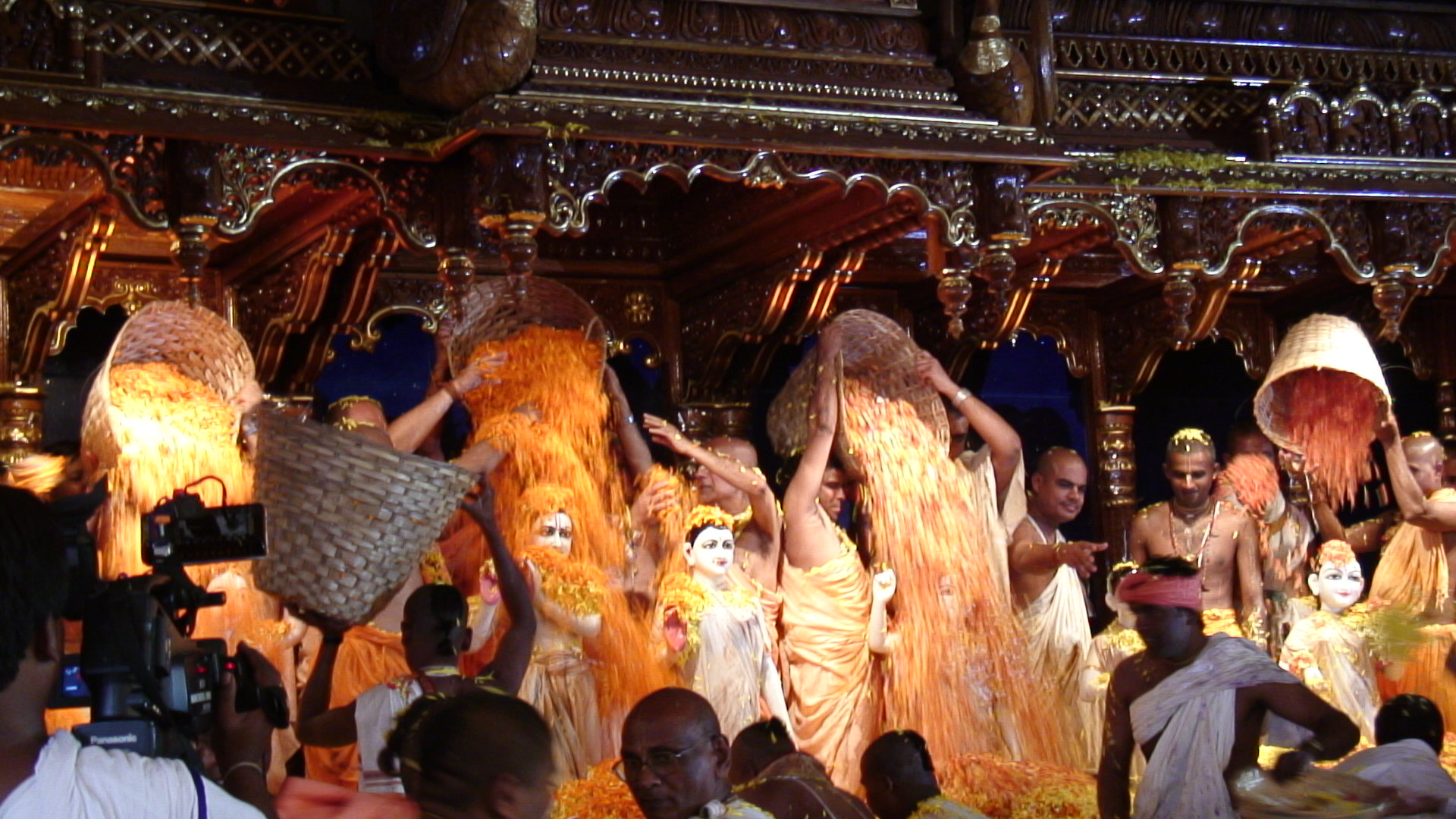 Pushpa_Abhisheka_ISKCON_Tirupati Temple inauguration festival 2007